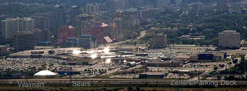 Square One, Mississauga